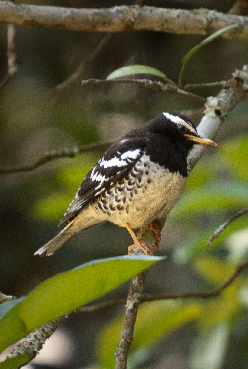 A male Pied Thrush in Nandi Hills, Karnataka, India.